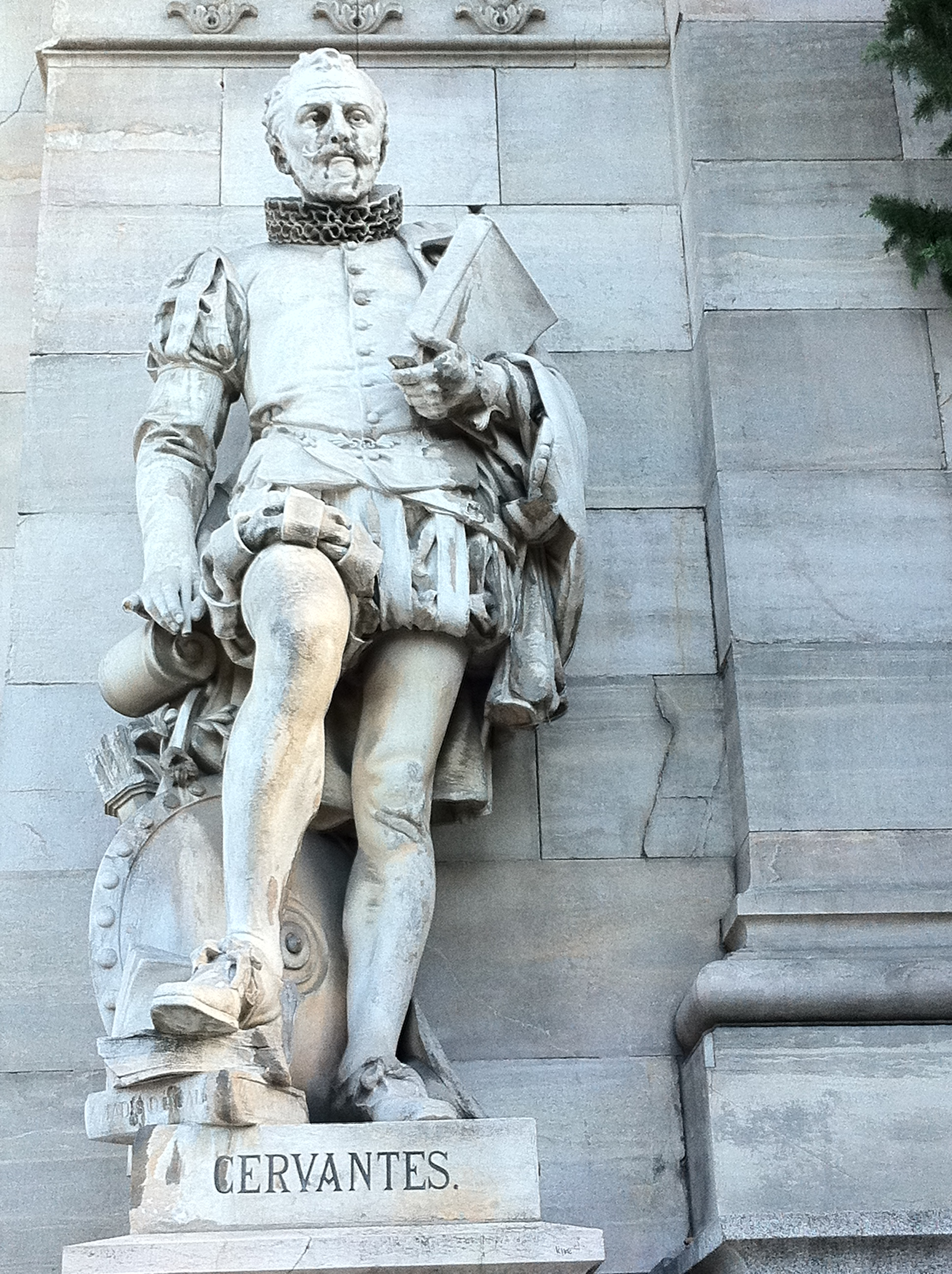 Picture of Cervantes's statue on National Library of Madrid.